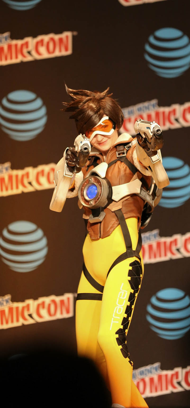 Agota Gudelyte, aka Foxtail, cosplaying as Tracer (from Overwatch) in the Eastern Championships of Cosplay contest at the 2016 New York Comic Con.